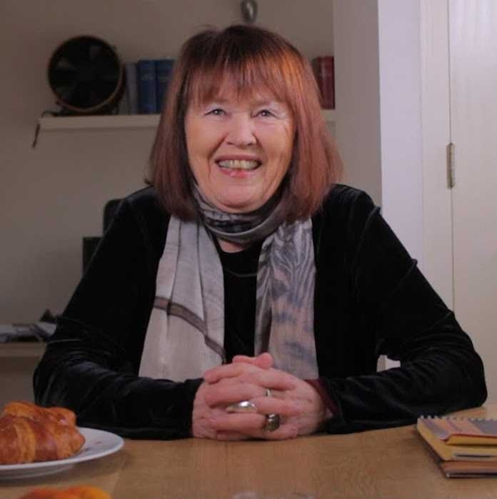 Rosemary Sullivan O.C. (born 1947) is a Canadian poet, biographer, and anthologist